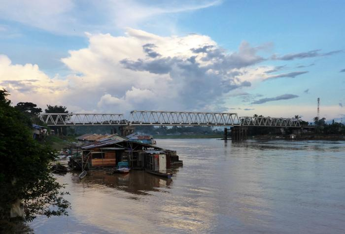 A bridge across the Kapuas River, linking two parts of the town Putussibau